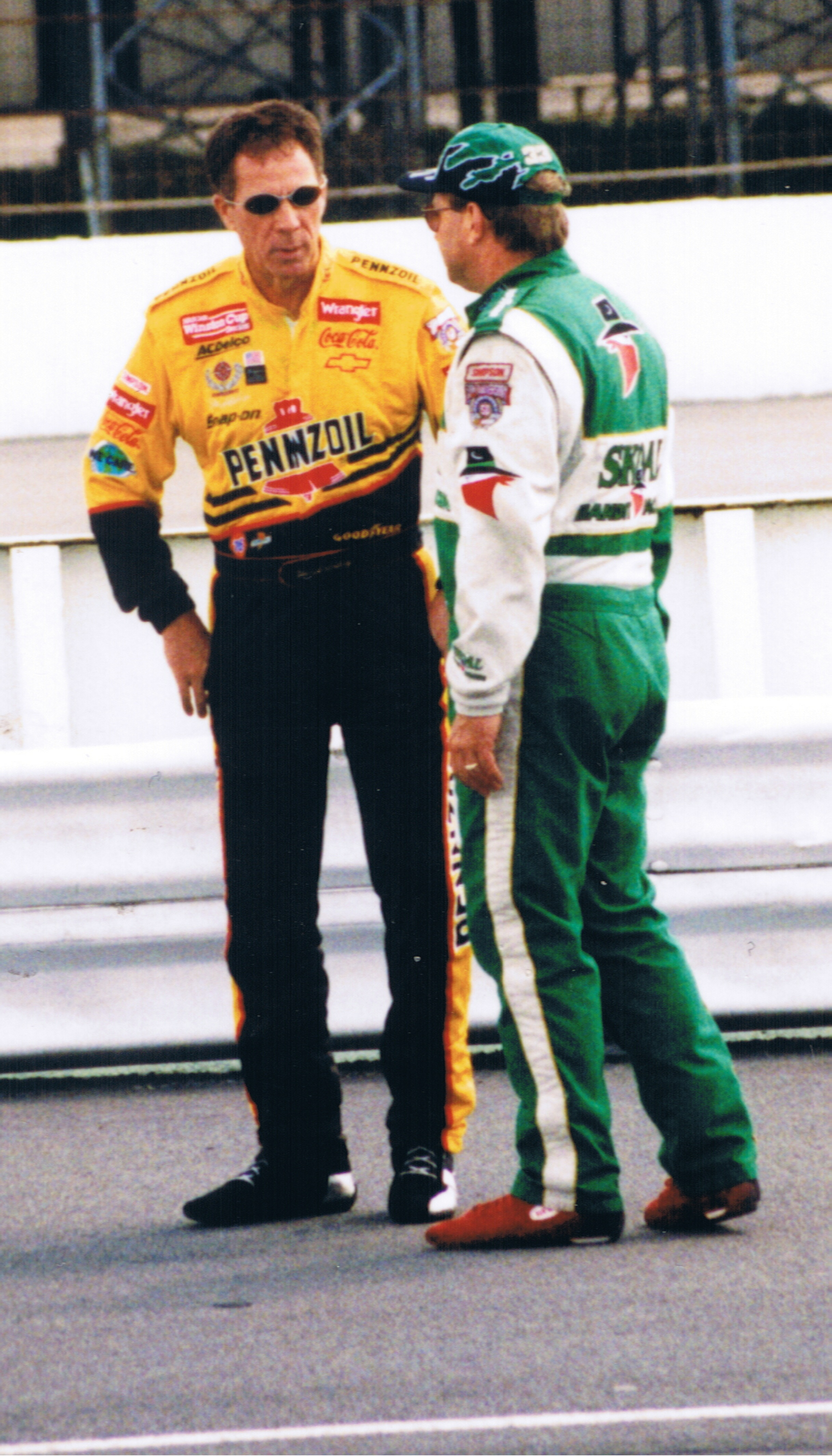 Darrell Waltrip and Ken Schrader, chat during qualifying for the Winston Cup series at Pocono Raceway, June 1998